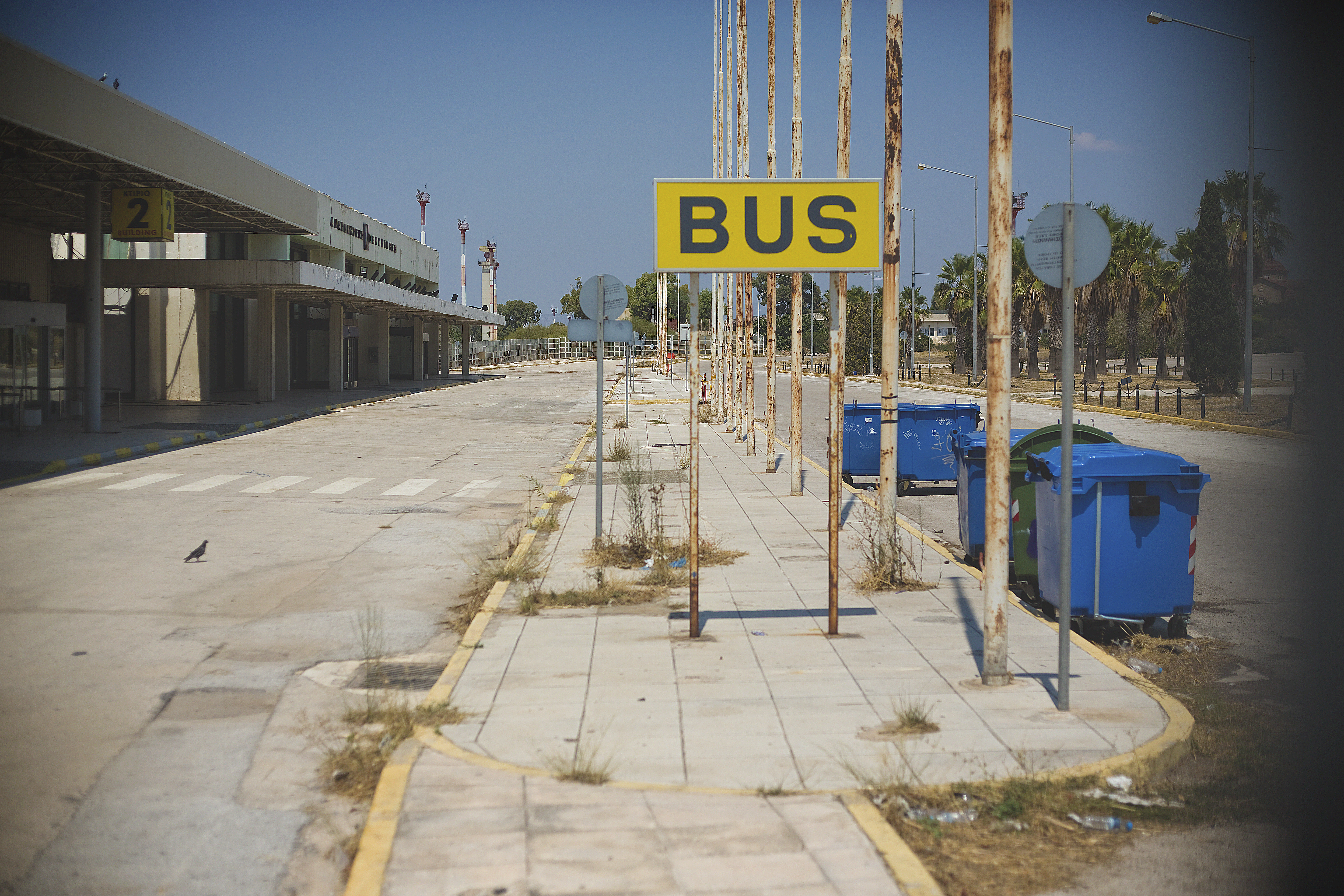 Busterminal mit dem im Hintergrund zu sehenden unter, Denkmalschutz stehenden Empfangsgebäude des ehem. internationalen Flughafens Ellinikon in Athen.